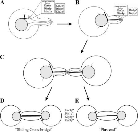 Nucleus is gray; SPB is black circle; MTs are black bars; actin filaments are gray cables; actin patches are small gray circles. (A) Nuclear orientation to the shmoo tip. MTs are guided along filamentous actin toward the shmoo tip. Kar9p, Bim1p, and Myo2p are required for nuclear orientation, but the contributions of Kar3p, Bik1p, and Kip2p are unknown. (B) MT attachment to the shmoo tip. MTs are tethered to the mating projection by Kar3p during depolymerization and Bim1p during polymerization. Bik1p and Kip2p function in MT attachment is unknown. (C) Before cell–cell fusion, MTs are maintained at the shmoo tip. (D) Sliding cross-bridge model for nuclear congression. Oppositely oriented MTs overlap and are cross-linked along their lengths, whereas depolymerization is induced at the spindle poles (Rose, 1996). (E) Plus end model for nuclear congression. MT plus ends cross-link and induce depolymerization to draw opposing nuclei together. In either the sliding cross-bridge or plus end models, the localization and/or function of Kar3p, Bik1p, Kip2p, and Kar9p during live cell nuclear congression is not known.